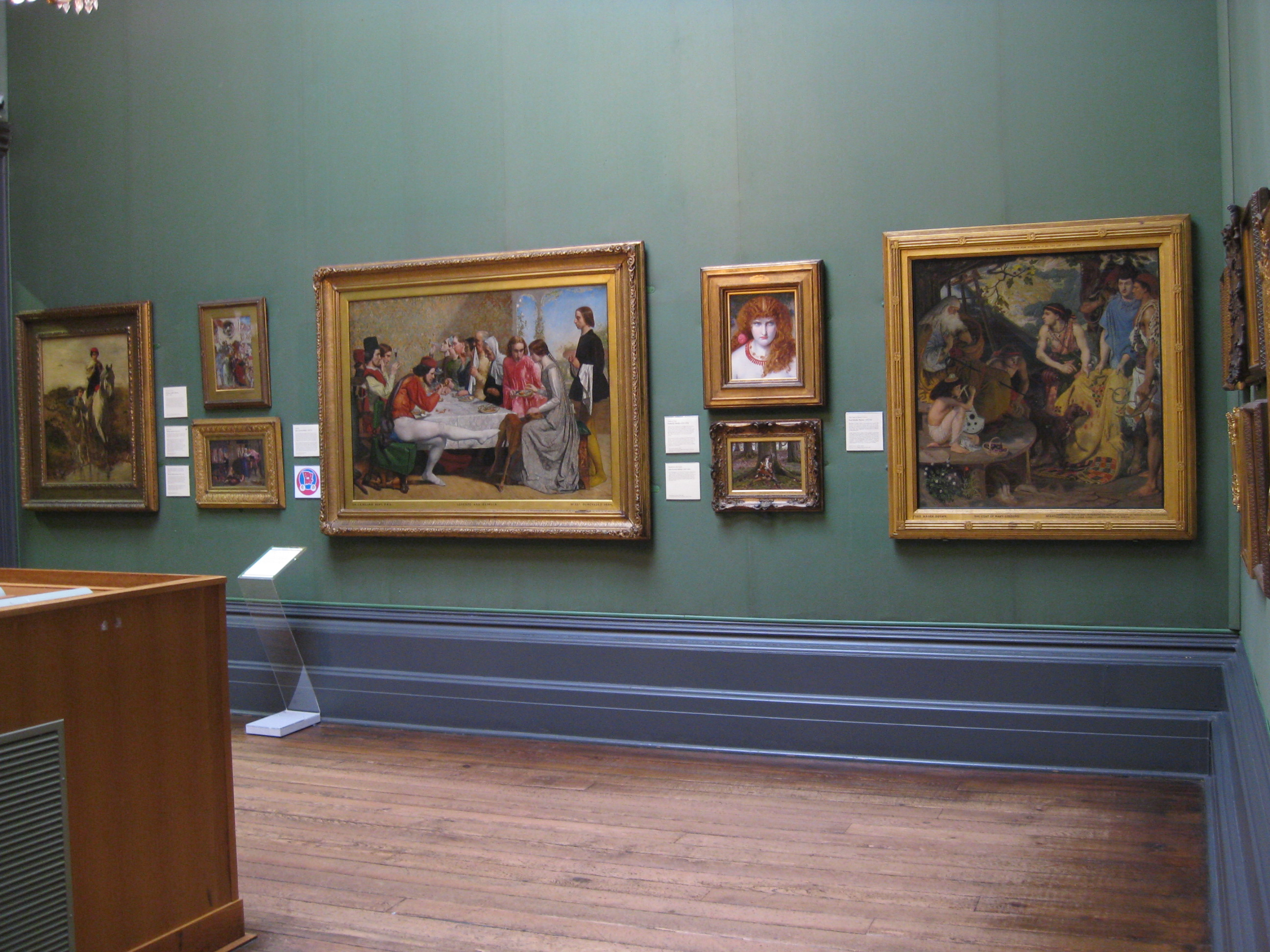 Interior, Walker Art Gallery, Liverpool. Part of the Pre-Raphaelite collection.